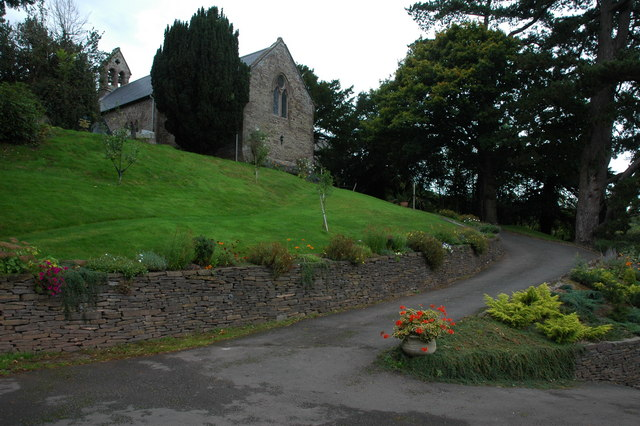 Oldcastle Church Oldcastle church appears to have been to converted to residential accommodation.